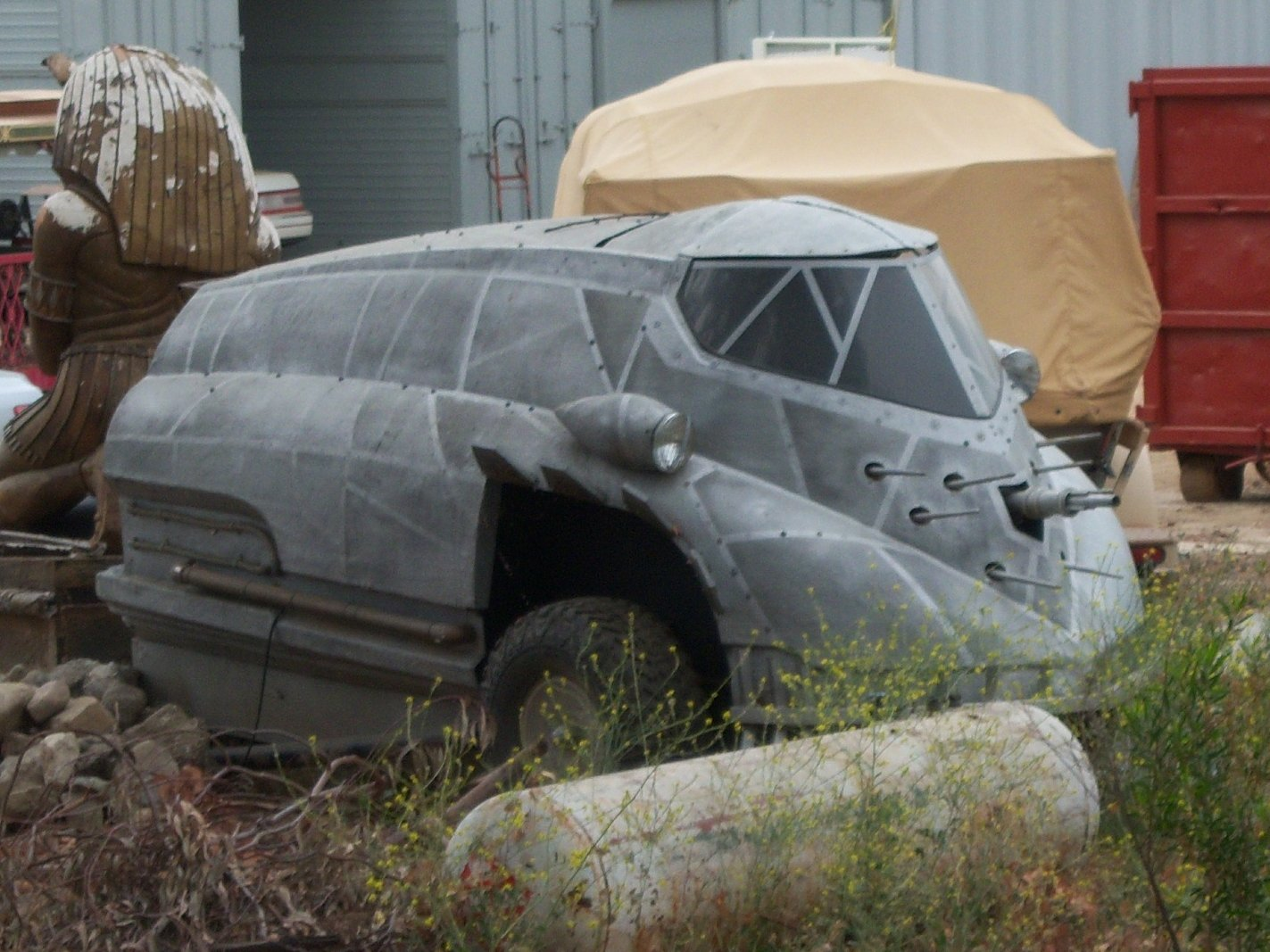 I have seen this in a movie or TV program somewhere? My daughter Just rented "Batman and Robin" one of the worst Batman Movies. So I was not really paying attention, when suddenly I saw Mr Freeze Driving an odd looking car. This was it! I knew I had seen it somewhere, so I was very excited to see it in the movie. It is about half the size it looked in the movie.